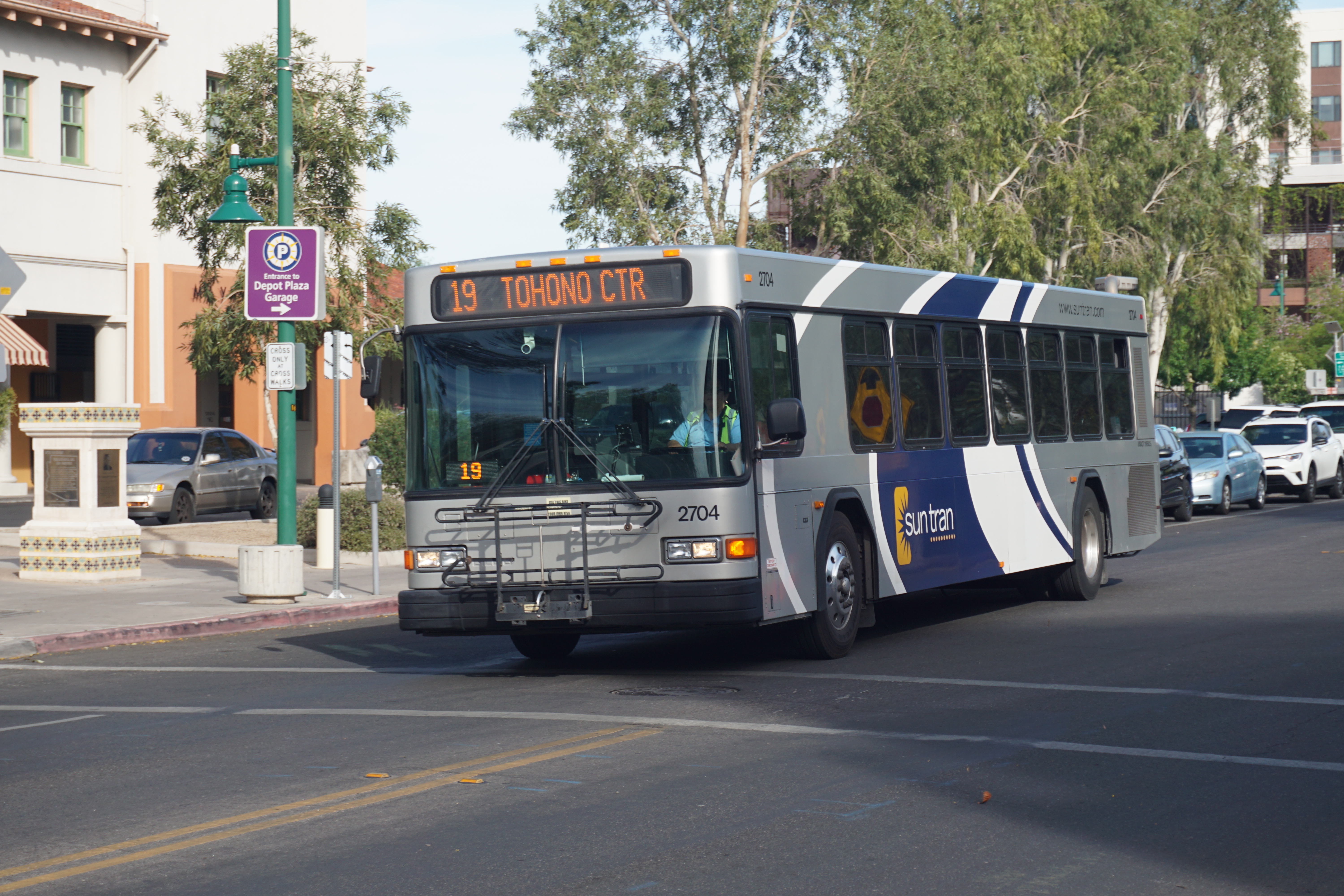 A Sun Tran bus in Tucson, Arizona (United States).